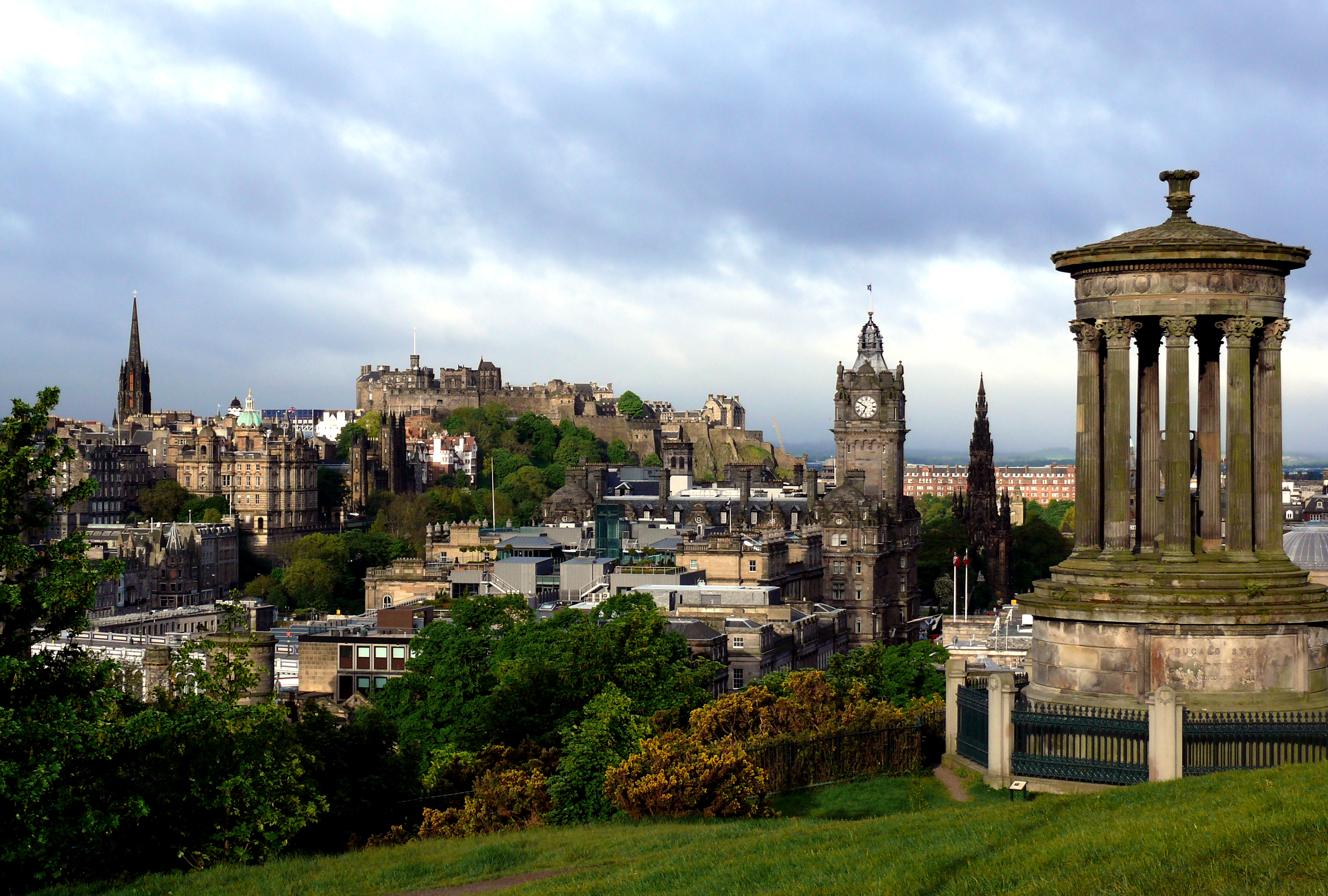 Classic view of Edinburgh from Calton Hill, in the foreground the Dugald Stewart Monument.